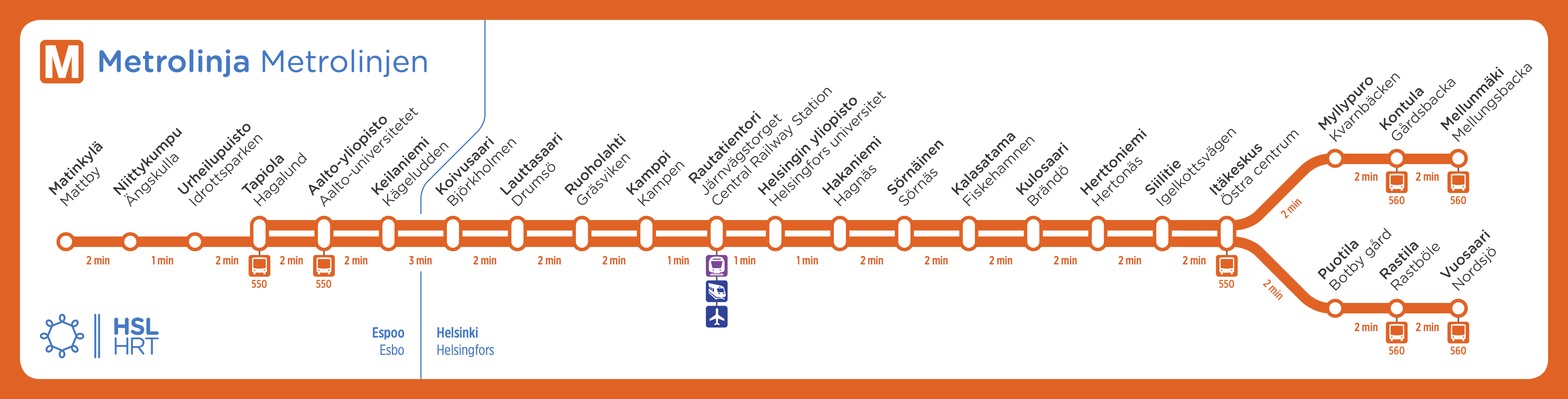 HSL:n tuleva metrokartta länsimetron aloittaessa liikenteen.